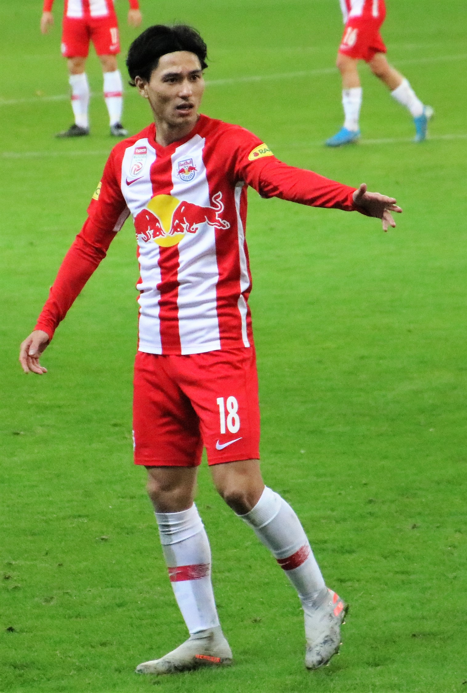 League match 15th round